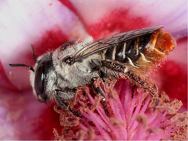 Lithurgus rubricatus